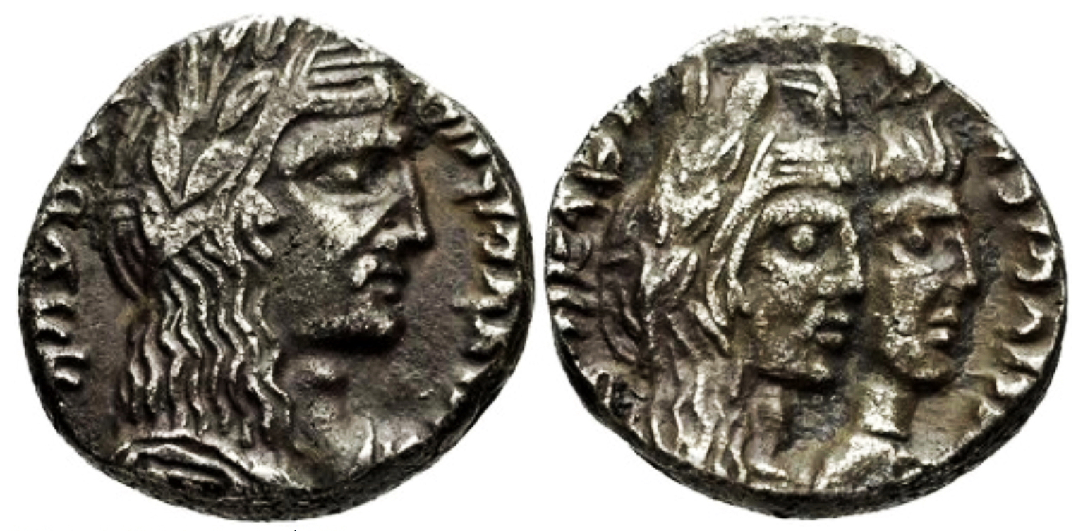 Silver drachm of Aretas IV with Shaqilat from 21 AD (14 mm, 3.76 g)